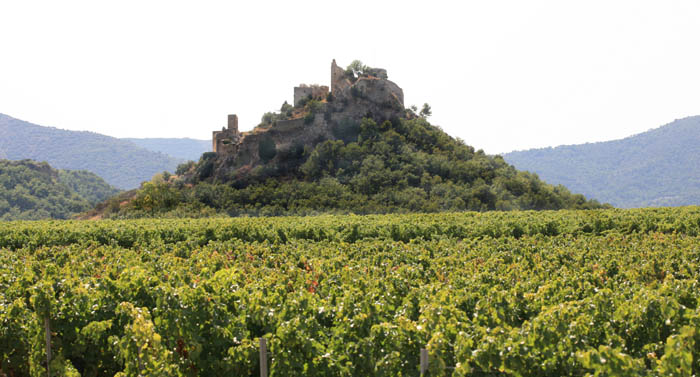 the village of Entrechaux - Vaucluse, France